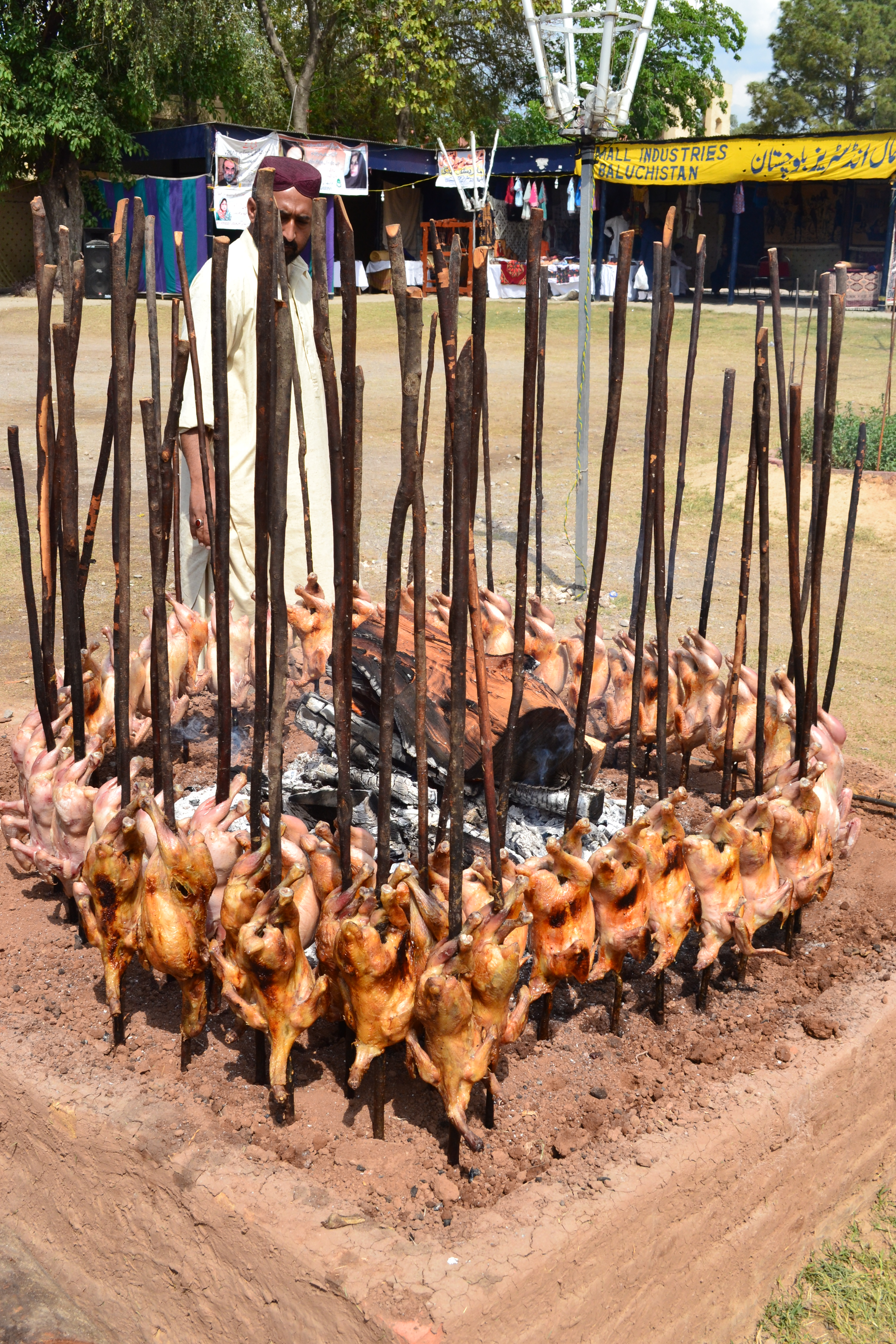 Sajji cooking